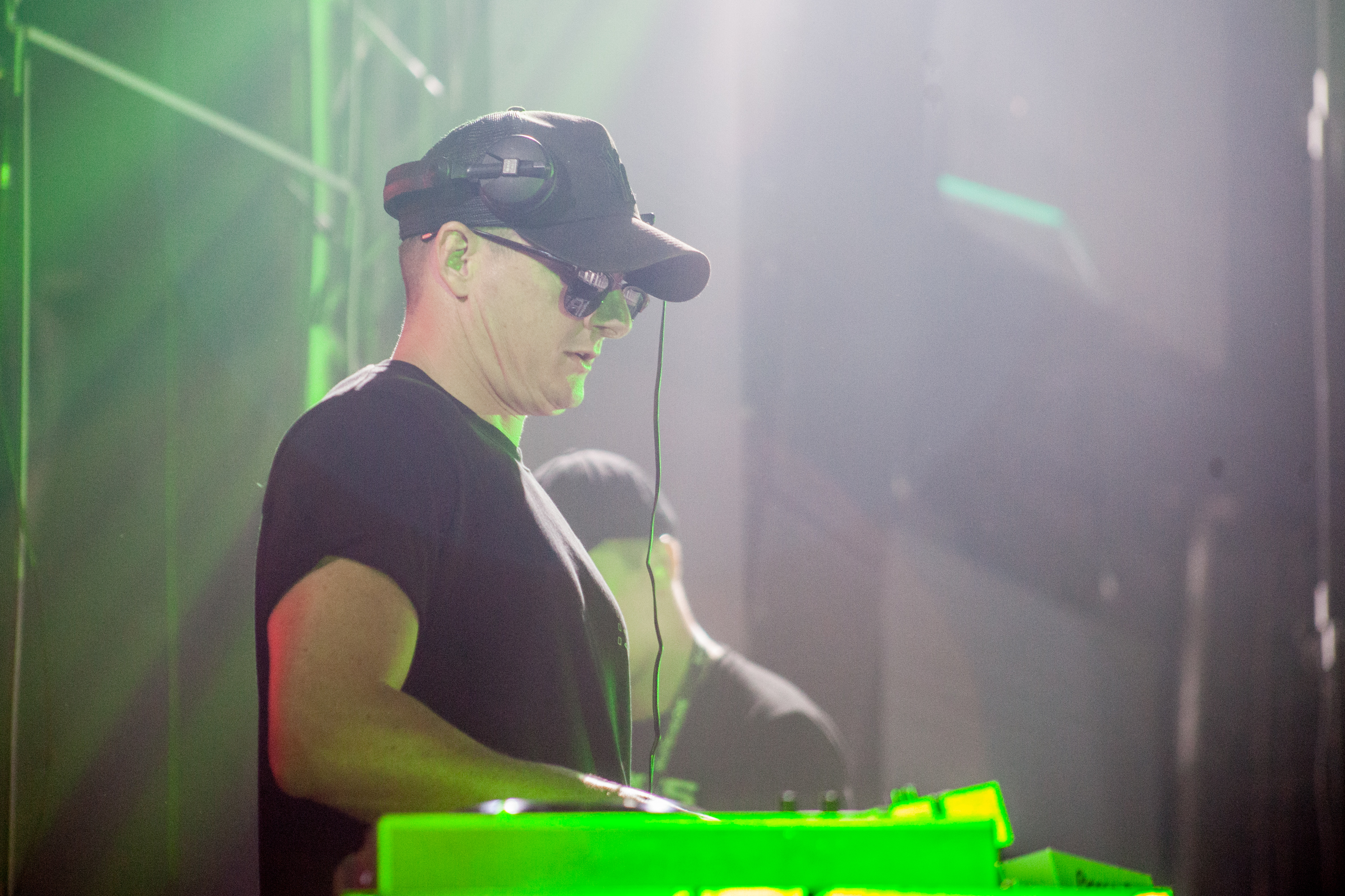 Kryder (Christopher Knight) performing at festival Beats for Love 2019 (Ostrava, Czechia) on 4 June 2019